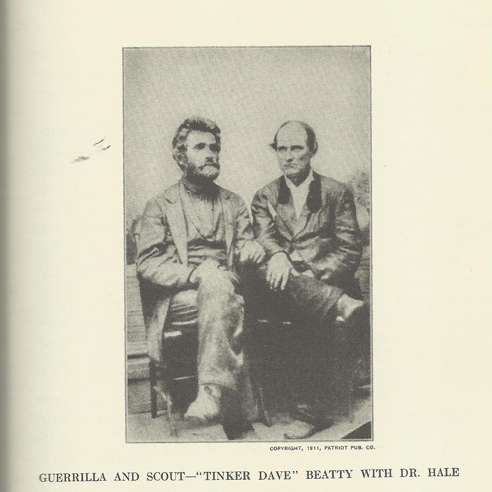 "Tinker Dave" Beatty & Dr. Hale-Chief of Scouts with Union Army of the Cumberland (p.275)